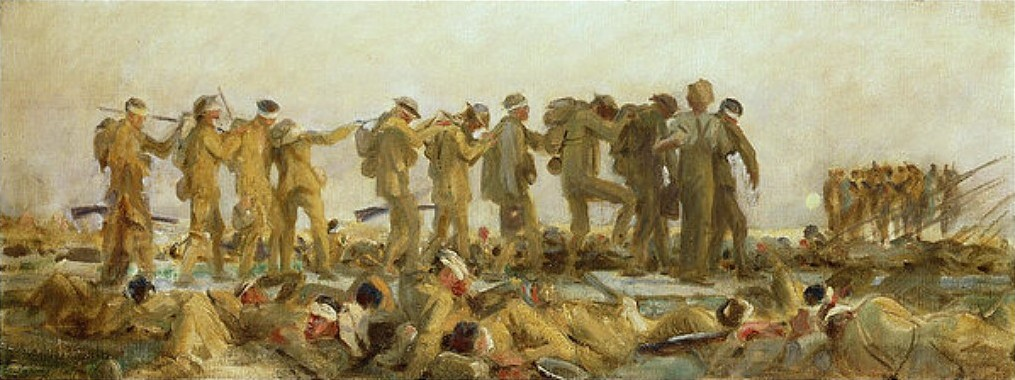 Signed and inscribed lower left "to Evan Charteris/John S. Sargent". Sold by Christie’s in 2003. Provenance: The Hon. Evan Charteris, K.C., and by descent.